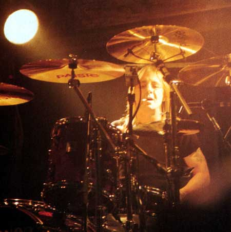 Phil Rudd, taken in 1995 in Seattle during AC/DC's Ballbreaker tour.